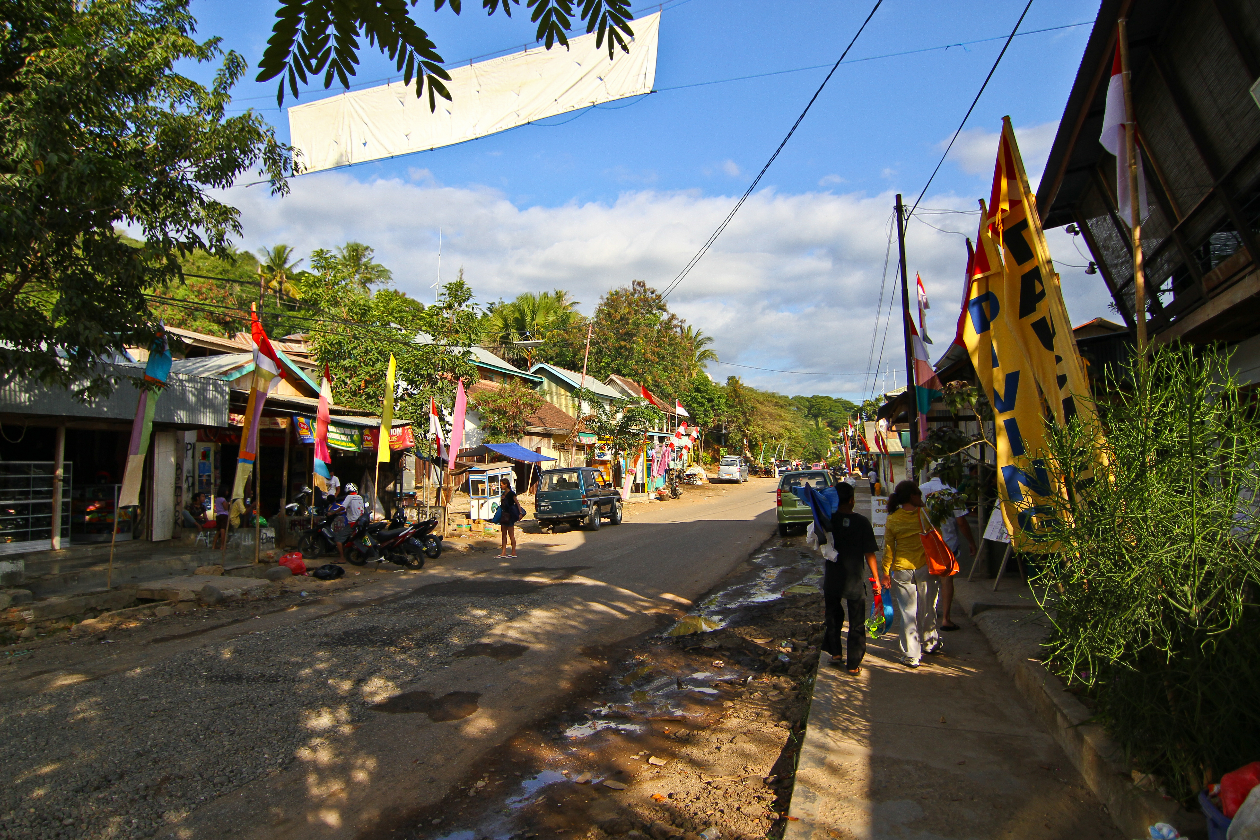 Main street of Labuanbajo, Flores, Indonesia.